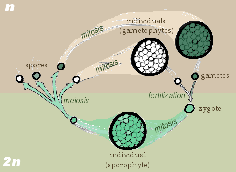 Drawn by self for Biological life cycle Cut-&-merge halves :Image:Zygotic_meiosis.png & :Image:Gametic_meiosis.png. Based on Freeman & Worth's Biology of Plants (p. 171).